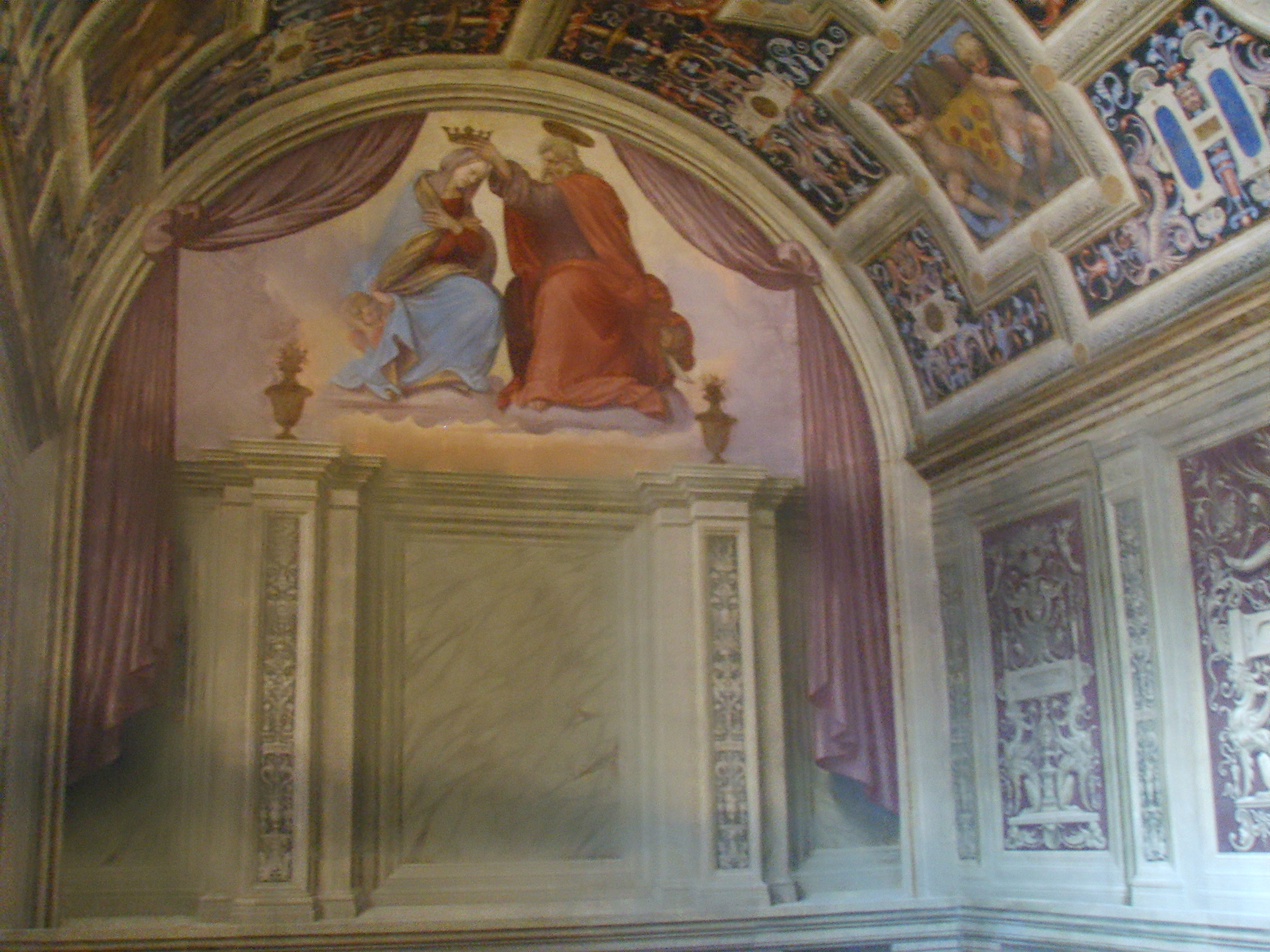 Cappella dei Papi in Santa Maria Novella church fresco Assumption of the Virgin by Ridolfo del Ghirlandaio in Florence, Italy